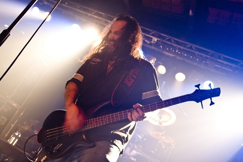 Winterfest 2009, Deicide, Warszawa, Progresja, 22.01.2009